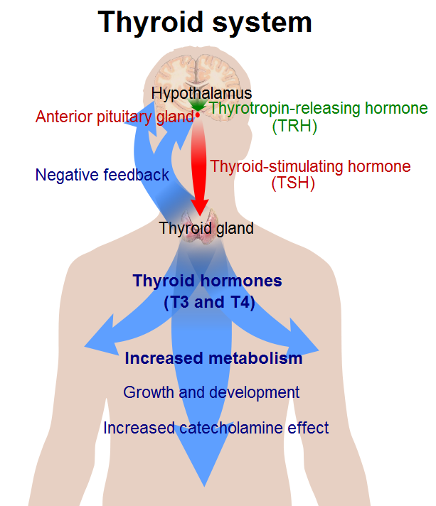 Overview of the thyroid system (See Wikipedia:Thyroid). To discuss image, please see Talk:Human body diagrams References Figure 1 in: Hill RN, Crisp TM, Hurley PM, Rosenthal SL, Singh DV (August 1998). "Risk assessment of thyroid follicular cell tumors". Environ. Health Perspect. 106 (8): 447–57. PMID 9681971. PMC: 1533213. Figure 1 in: Lindström G, Hooper K, Petreas M, Stephens R, Gilman A (March 1995). "Workshop on perinatal exposure to dioxin-like compounds. I. Summary". Environ. Health Perspect. 103 Suppl 2: 135–42. PMID 7614935. PMC: 1518837. GPnotebook: Thyroid hormone function Retrieved on Nov 25, 2009. Cite: " Both T3 and T4: *increase cell metabolism *1facilitate normal growth *2facilitate normal mental development *3increase the local effects of catecholamines